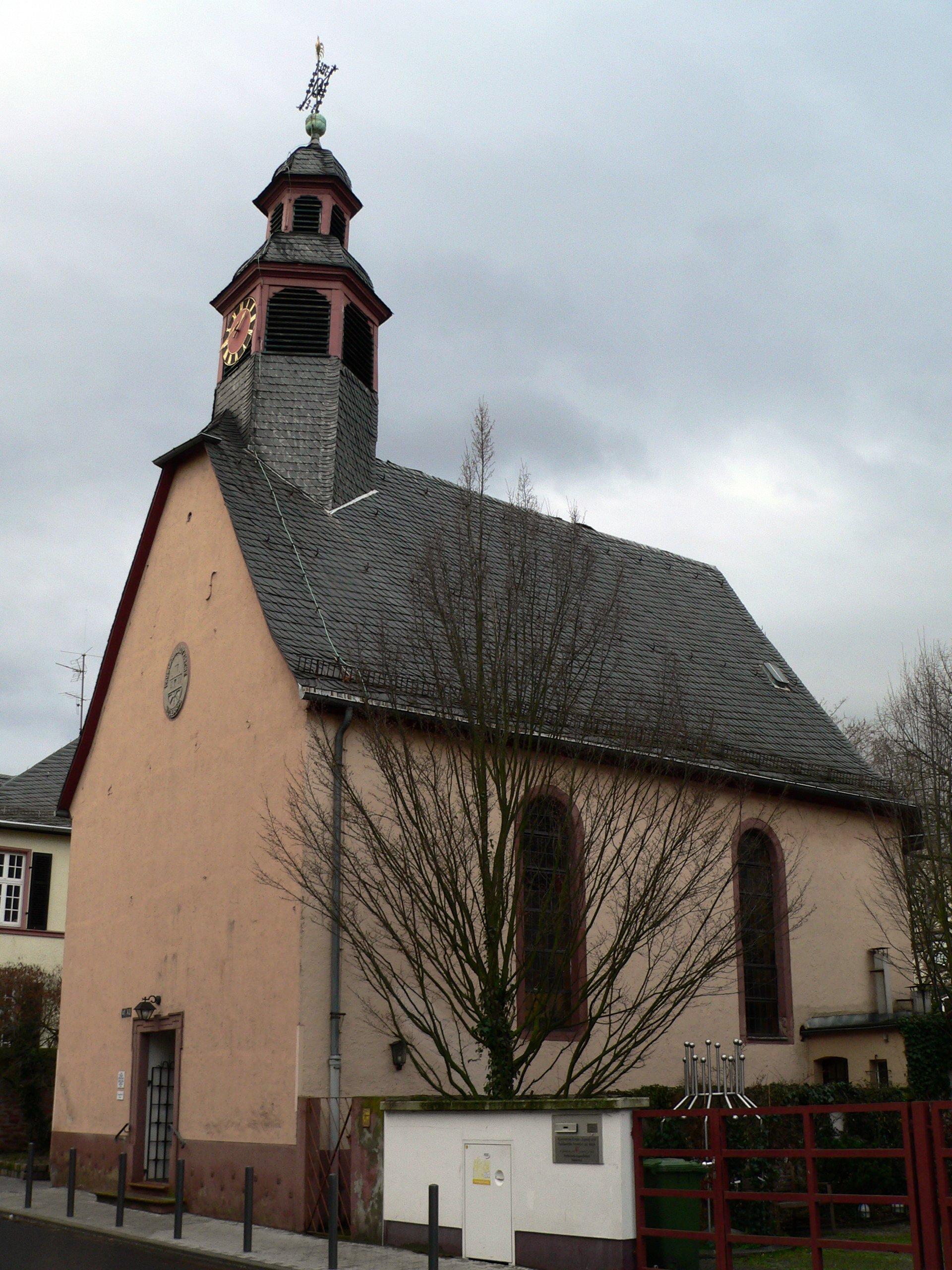 Frankfurt-Niederrad: Protestant church